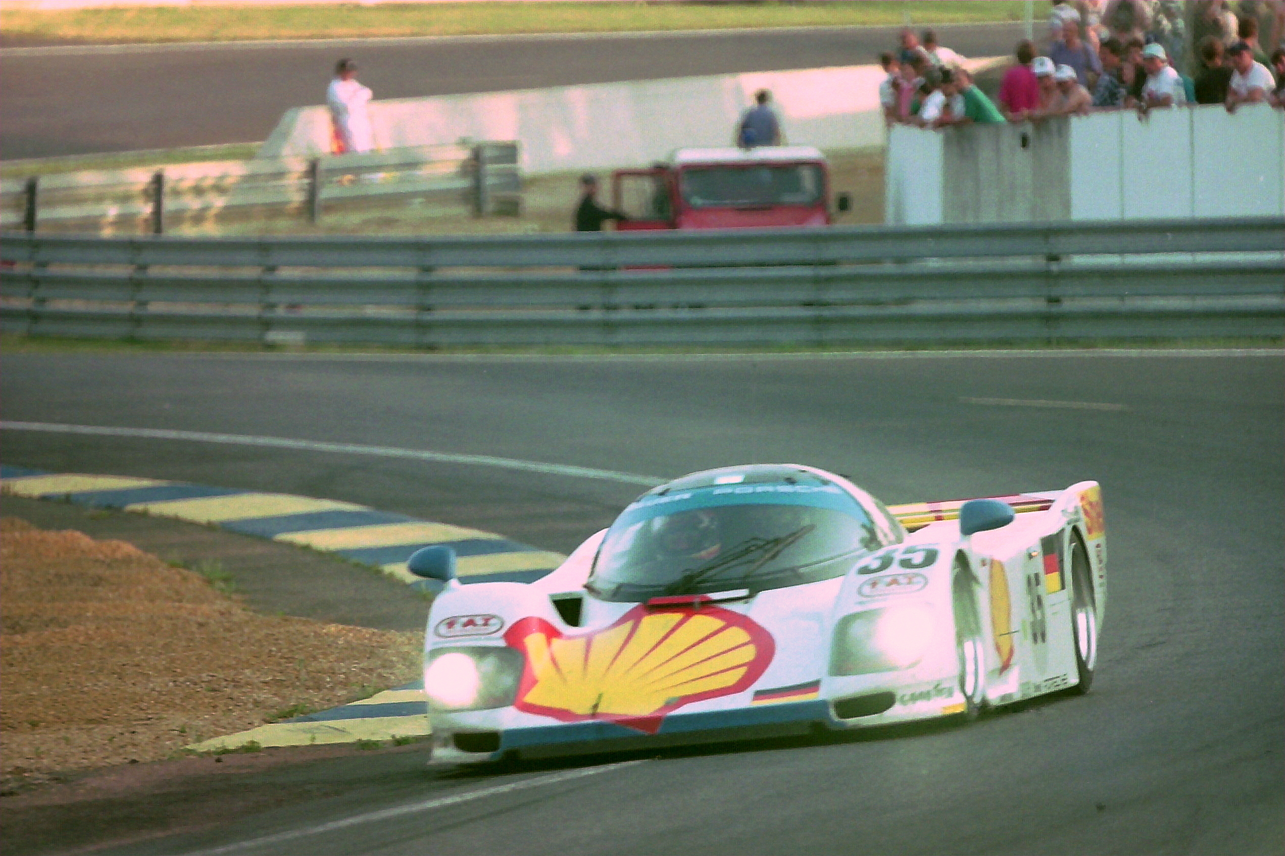 Dauer 962 LM - Hans-Joachim Stuck, Thierry Boutsen & Danny Sullivan exits the Esses at the 1994 Le Mans